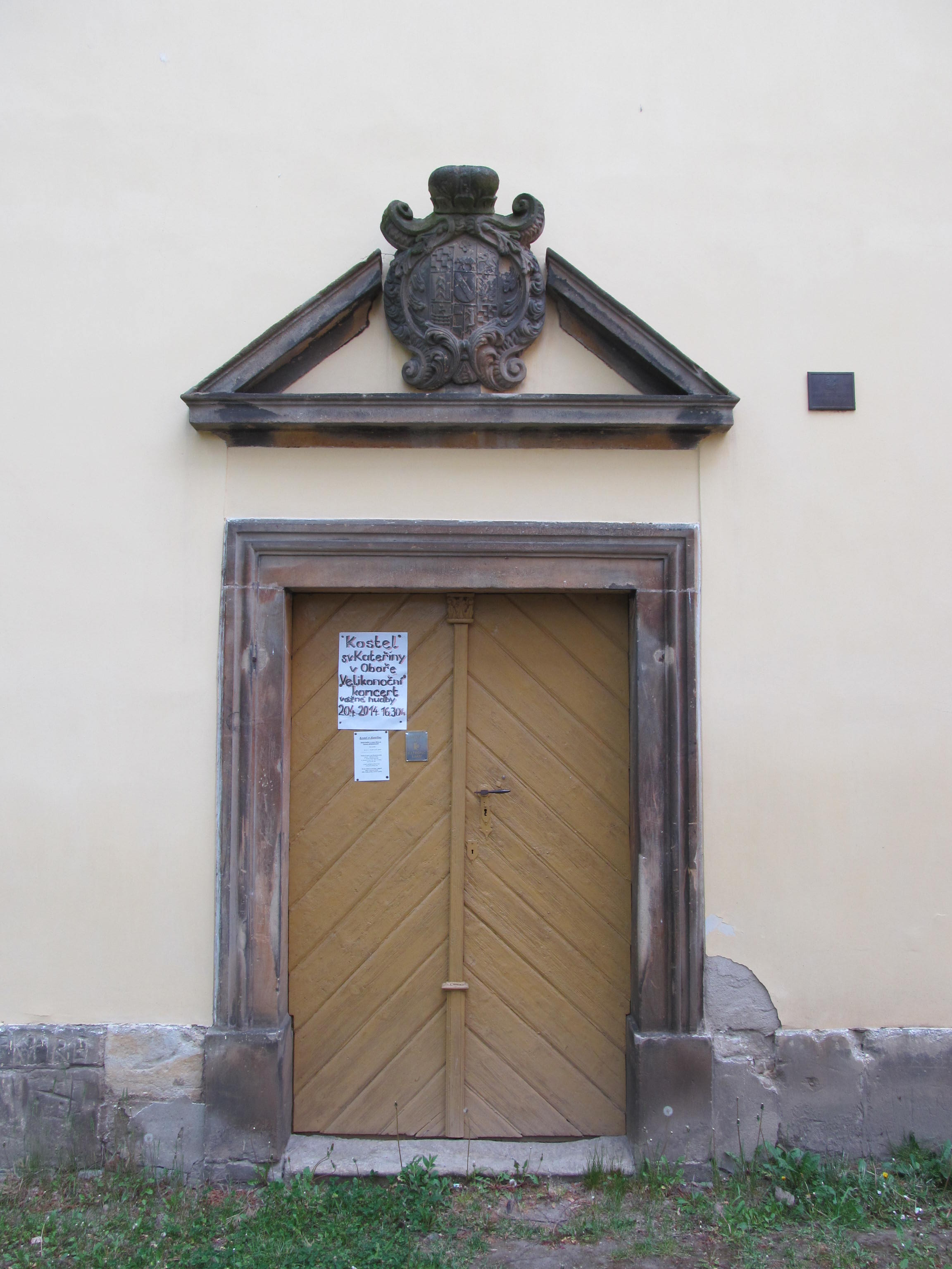 West portal of the church of Saint Catherine in Obora